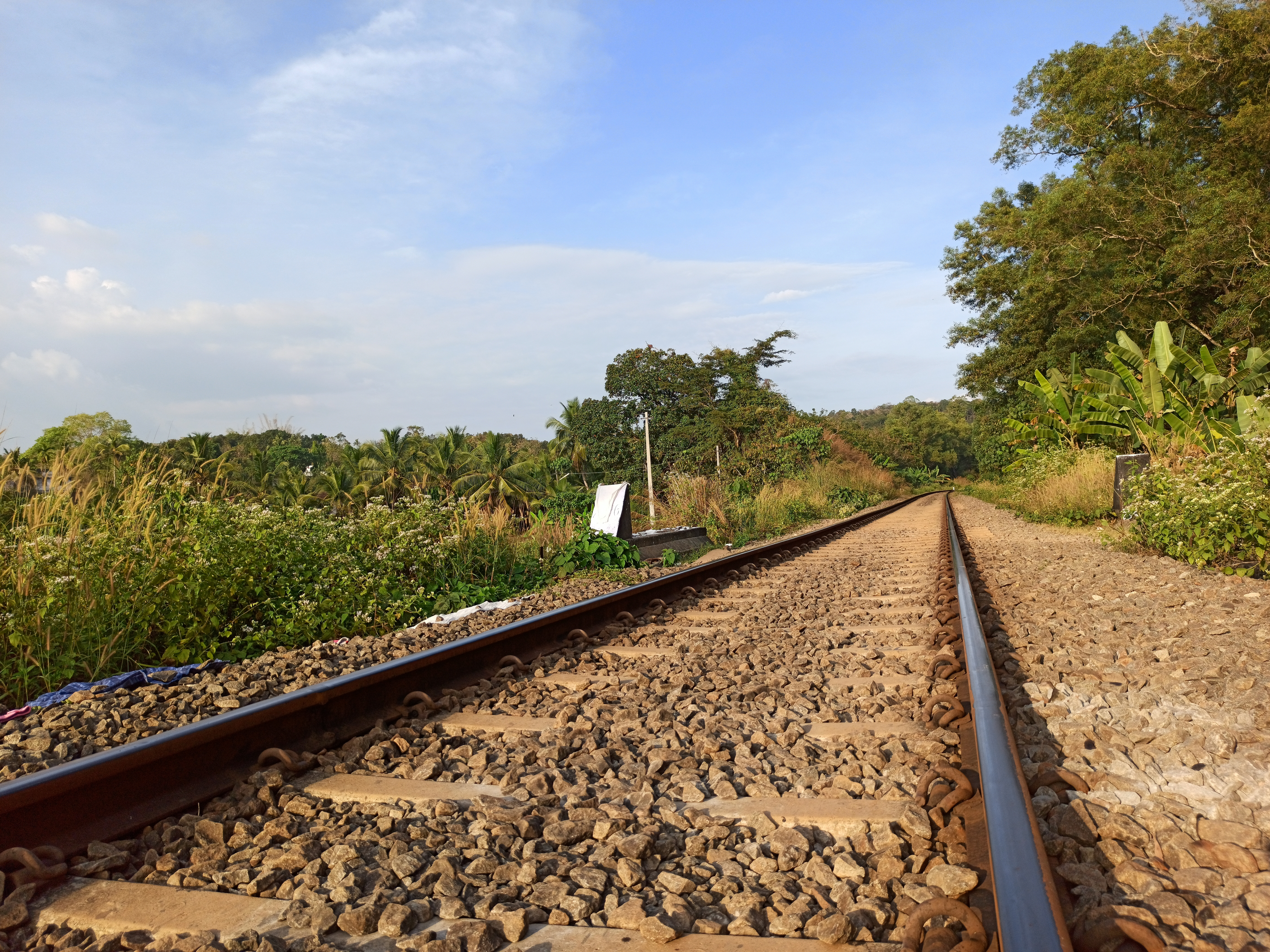 Kuri is a halt railway station near Thalavoor Panchayath in Kollam district of Kerala